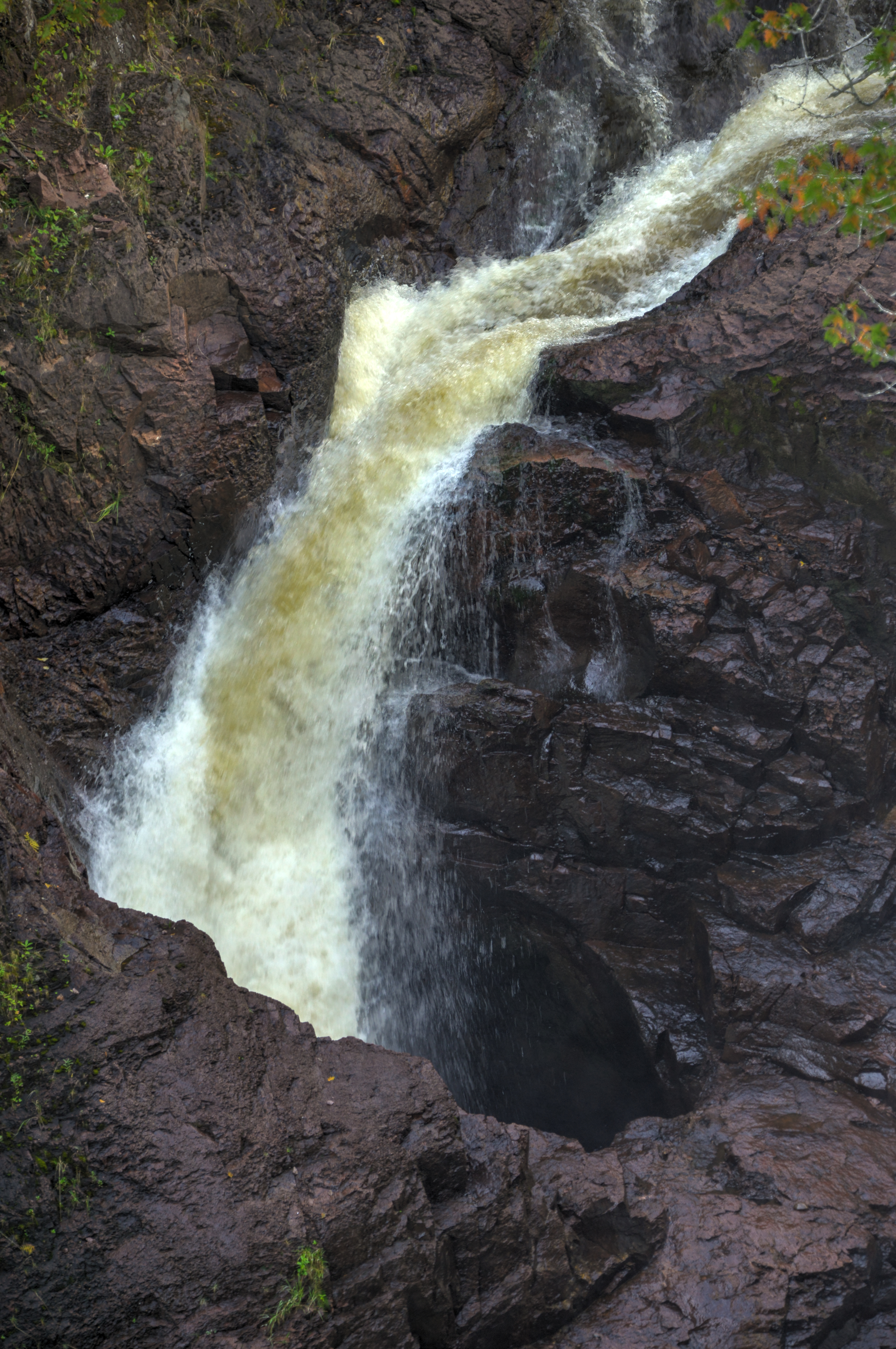 The Devil's Kettle, an odd formation at a waterfall on the Brule River a little ways above Lake Superior.